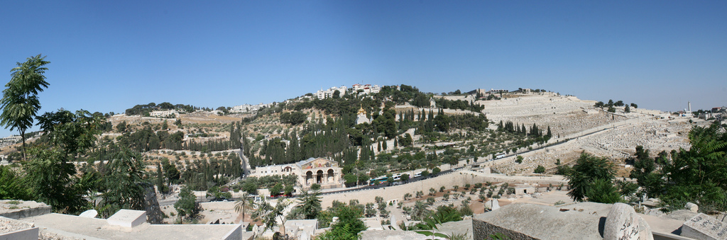 A panoramic of the entire Mount of Olives (Har Hazeiythim) taken from the East Gate of the Temple Mount in Jerusalem, Israel